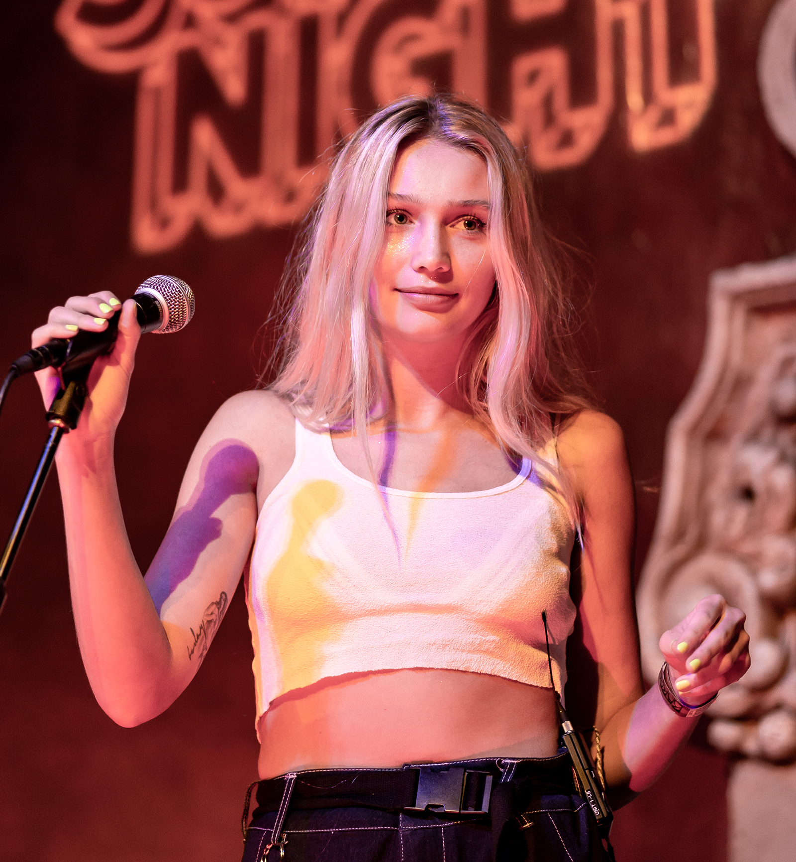 Russo performing live at School Night at Bardot Hollywood, in Los Angeles, California, on Monday, July 16, 2018.